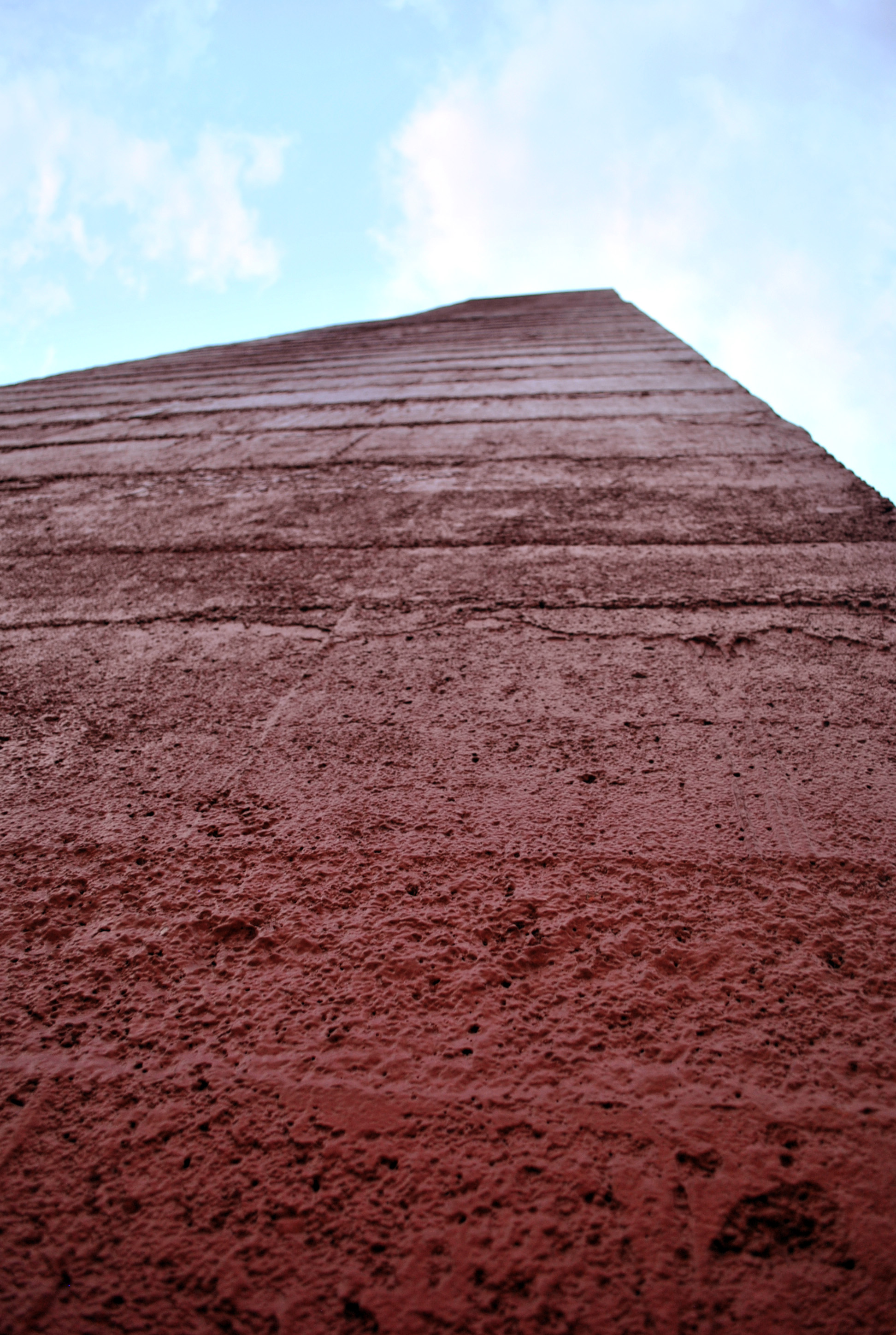 Torres de Satélite, sculptures by Mathías Goeritz, Luis Barragán and Jesús "Chucho" Reyes Ferreira.